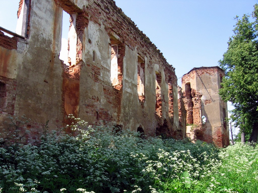 The ruins of Halšany Castle. Halšany, Belarus